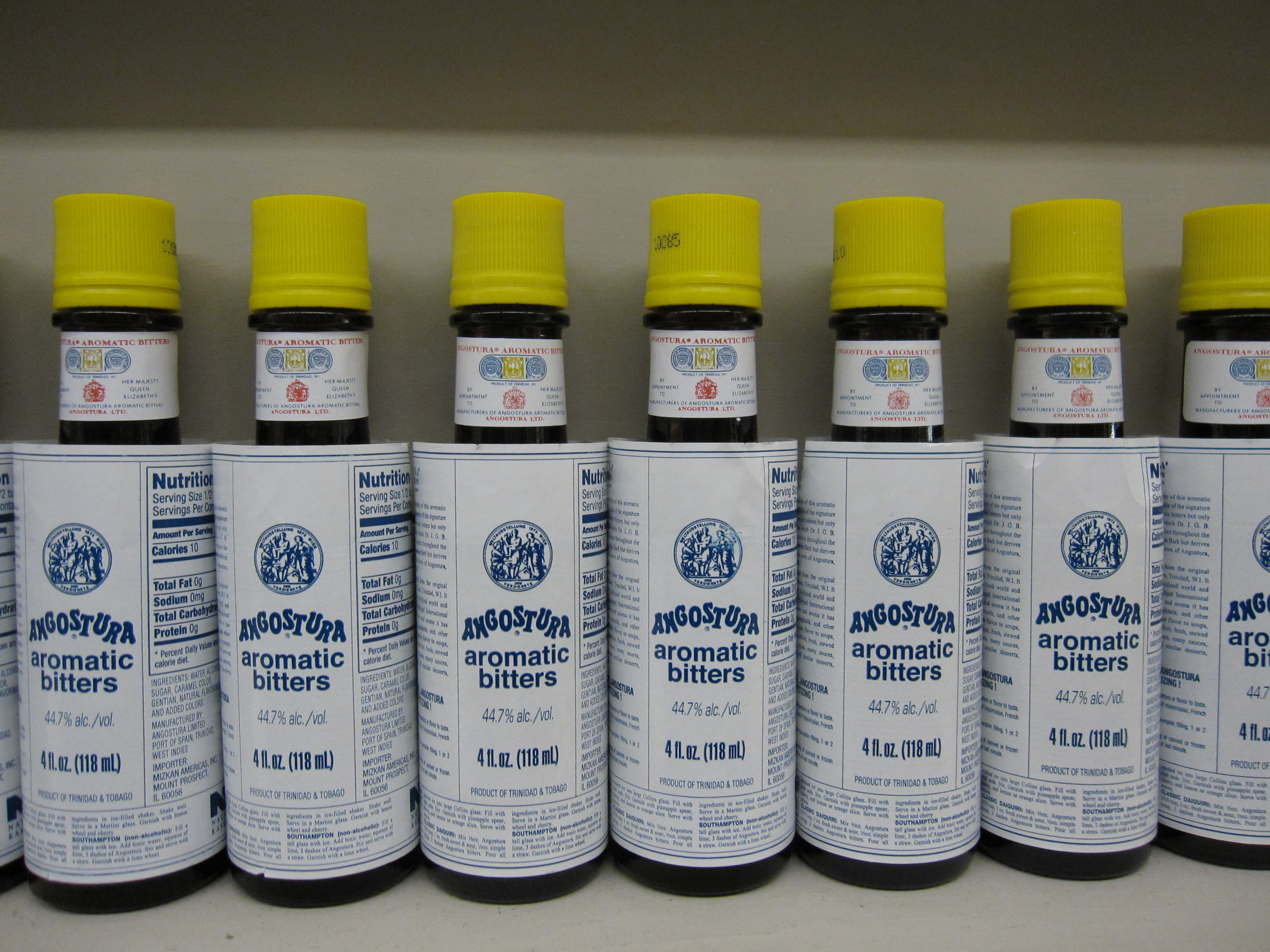 Angostura bitters on a shelf.